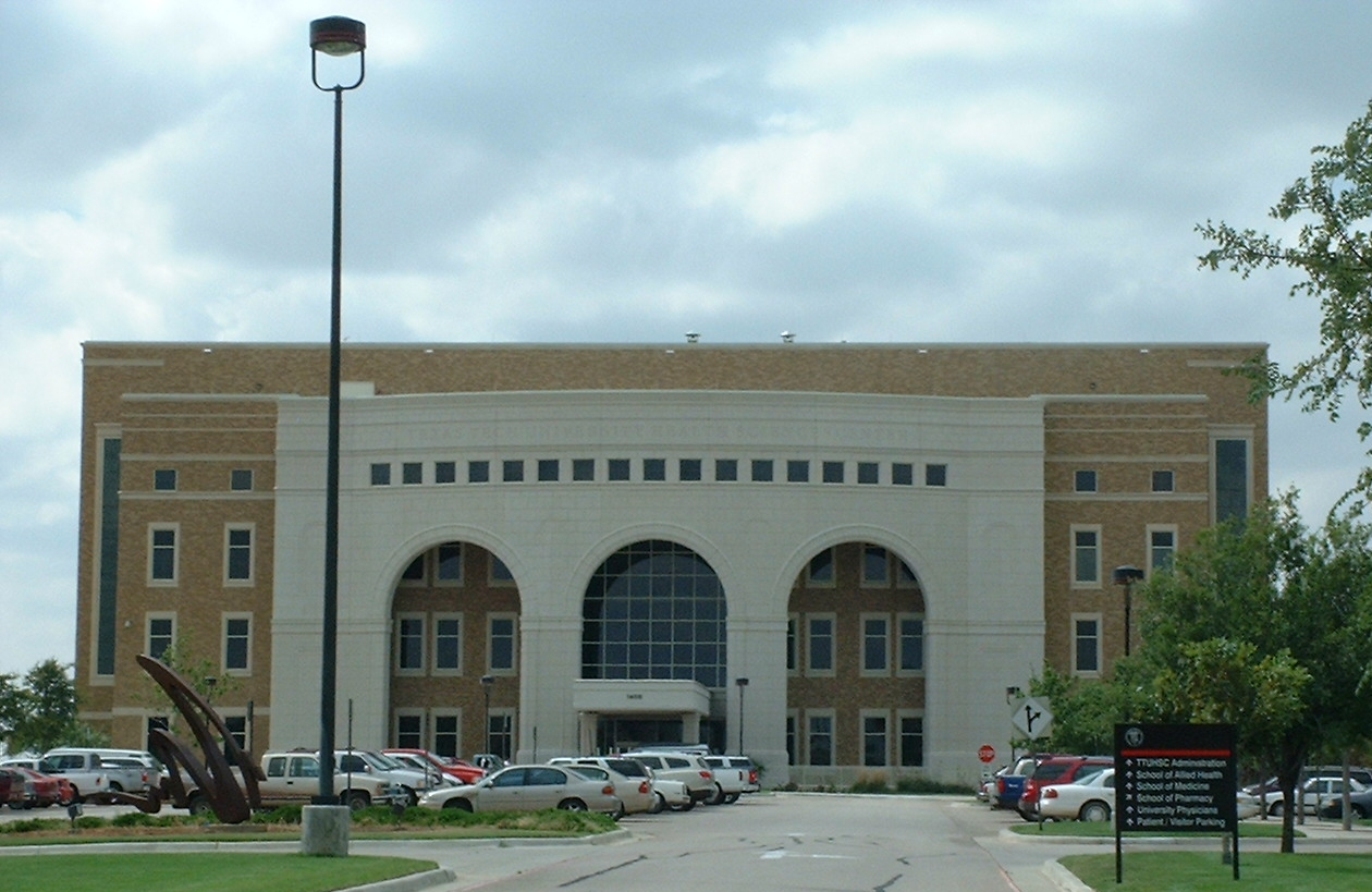 Texas Tech University Health Science Center Amarillo Campus in Amarillo, Texas